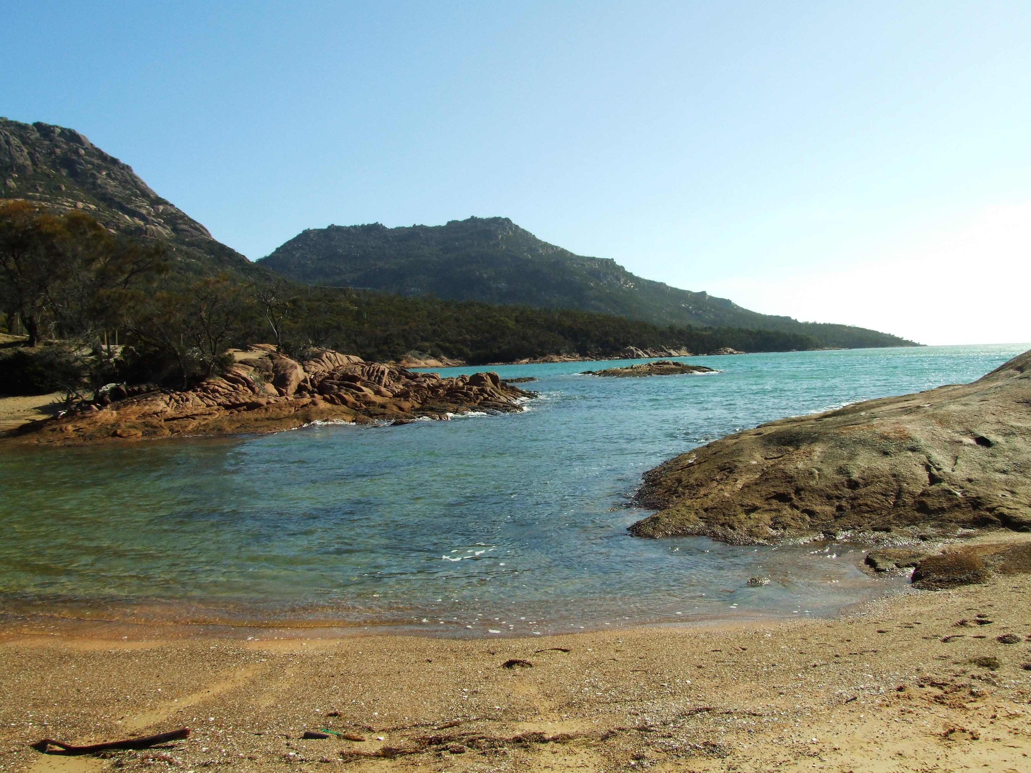 Honeymoon Bay, Freycinet National Park, Tasmania, Australia.